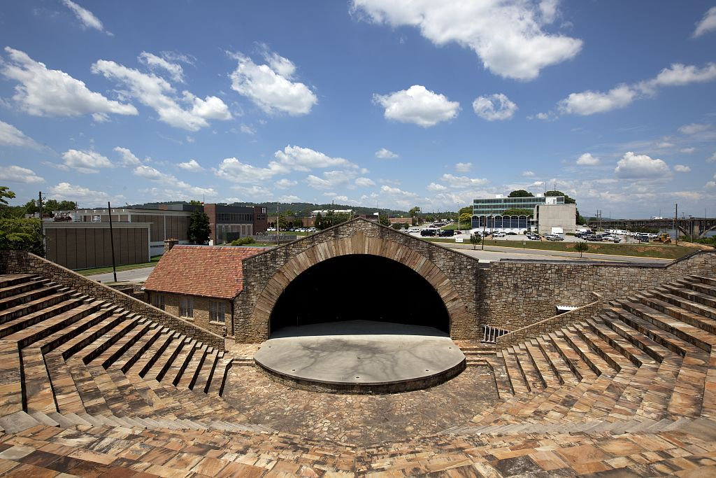 Mort Glosser Amphitheater in Gadsden, Alabama, is listed on the National Register of Historic Places.